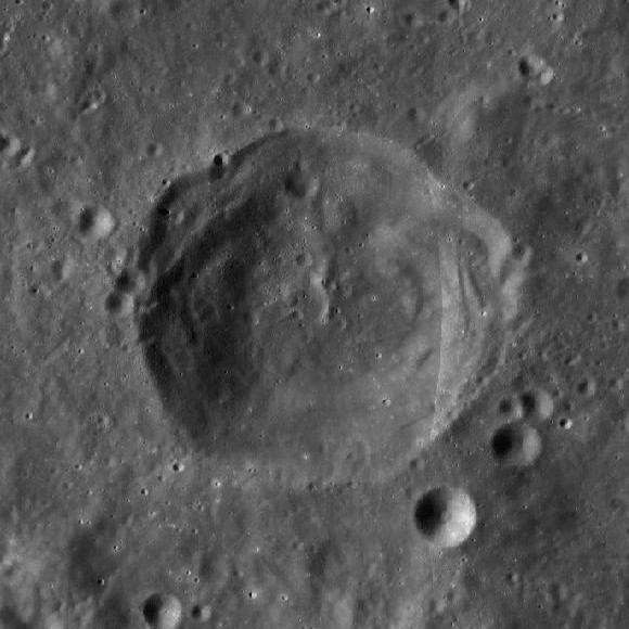 Tacitus crater, on the moon. Lunar Reconnaissance Orbiter Wide Angle Camera (WAC) mosaic.